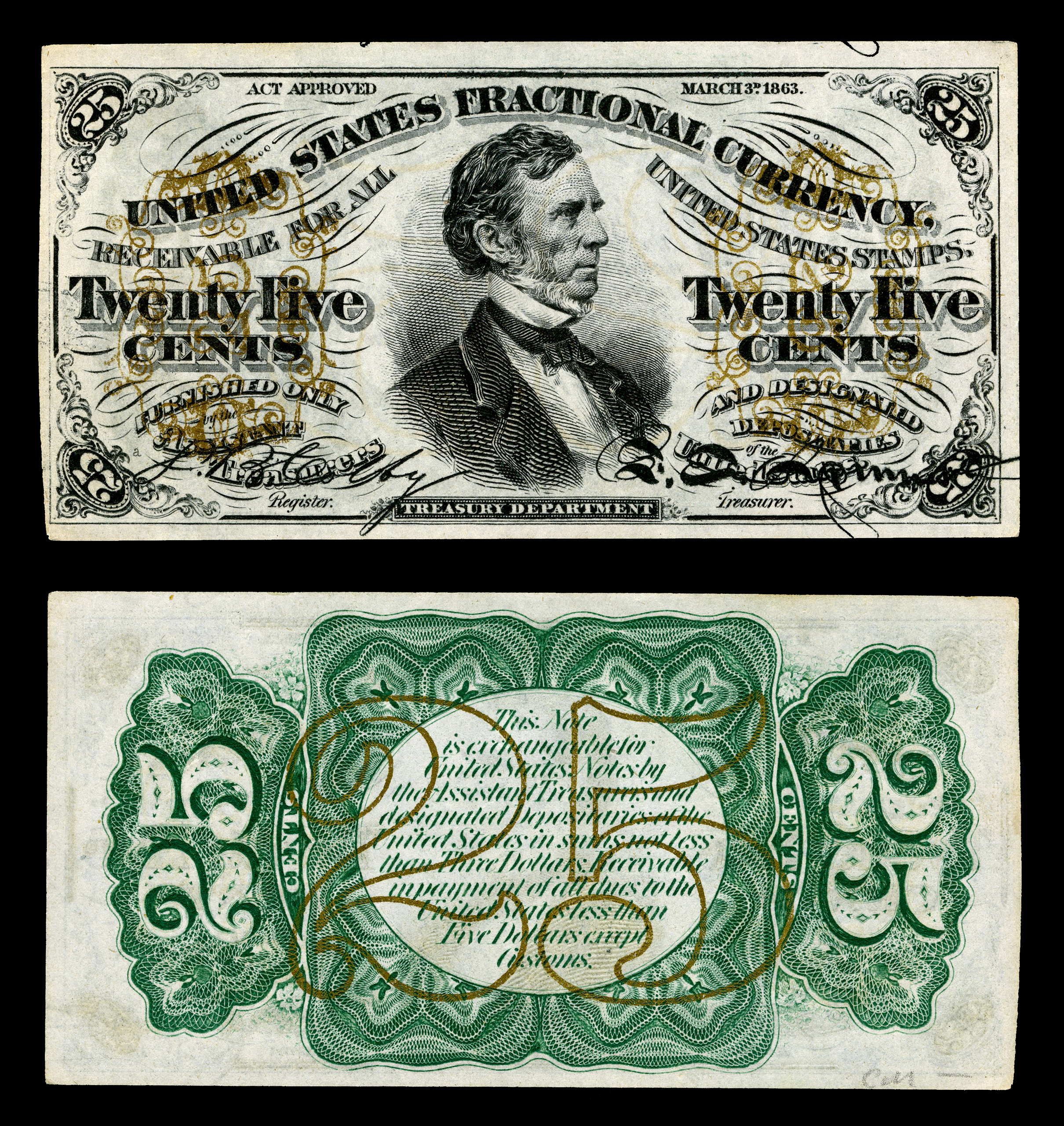 Fractional Currency was introduced by the United States Federal Government following the Civil War. These notes were in use between 21 August 1862 and 15 February 1876, and could be redeemed by the U.S. Postal Service for the face value in postage stamps. Fractional notes were issued in 3, 5, 10, 15, 25, and 50 cent denominations.